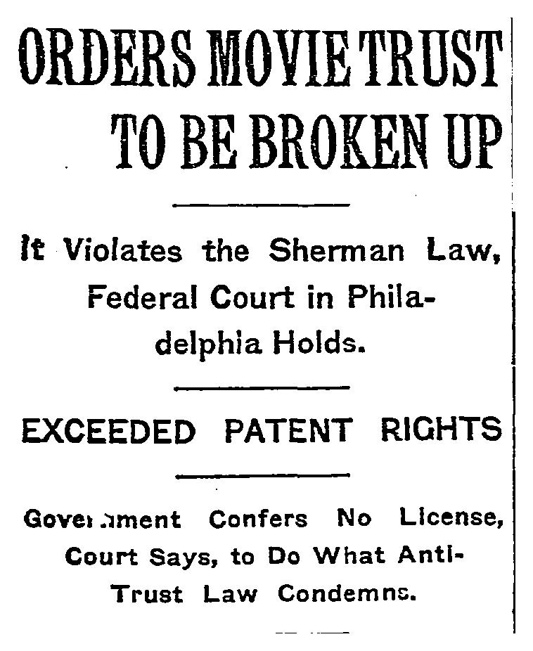 This is a headline from a 1915 issue of the NY Times announcing the decision in United States v. Motion Picture Patents Co.